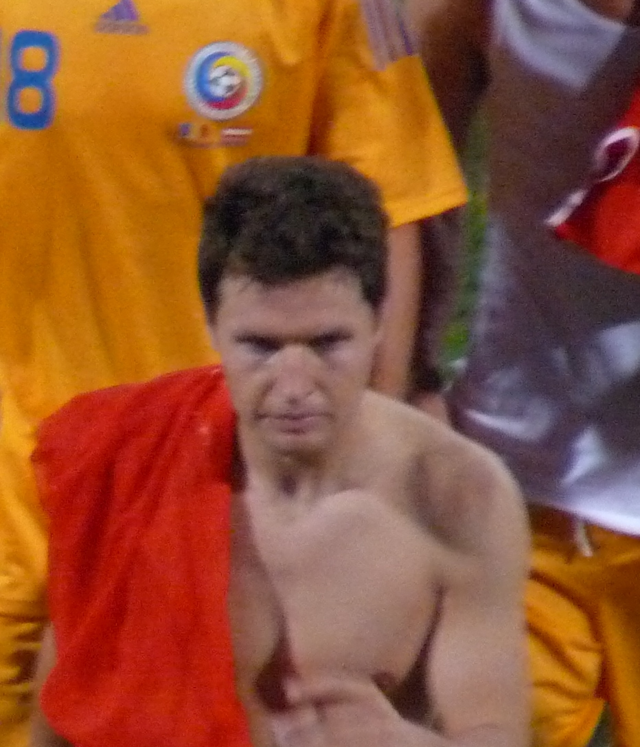 Gheorghe Bucur playing for the national football team of Romania against Austria on the Steaua stadium in Bucharest